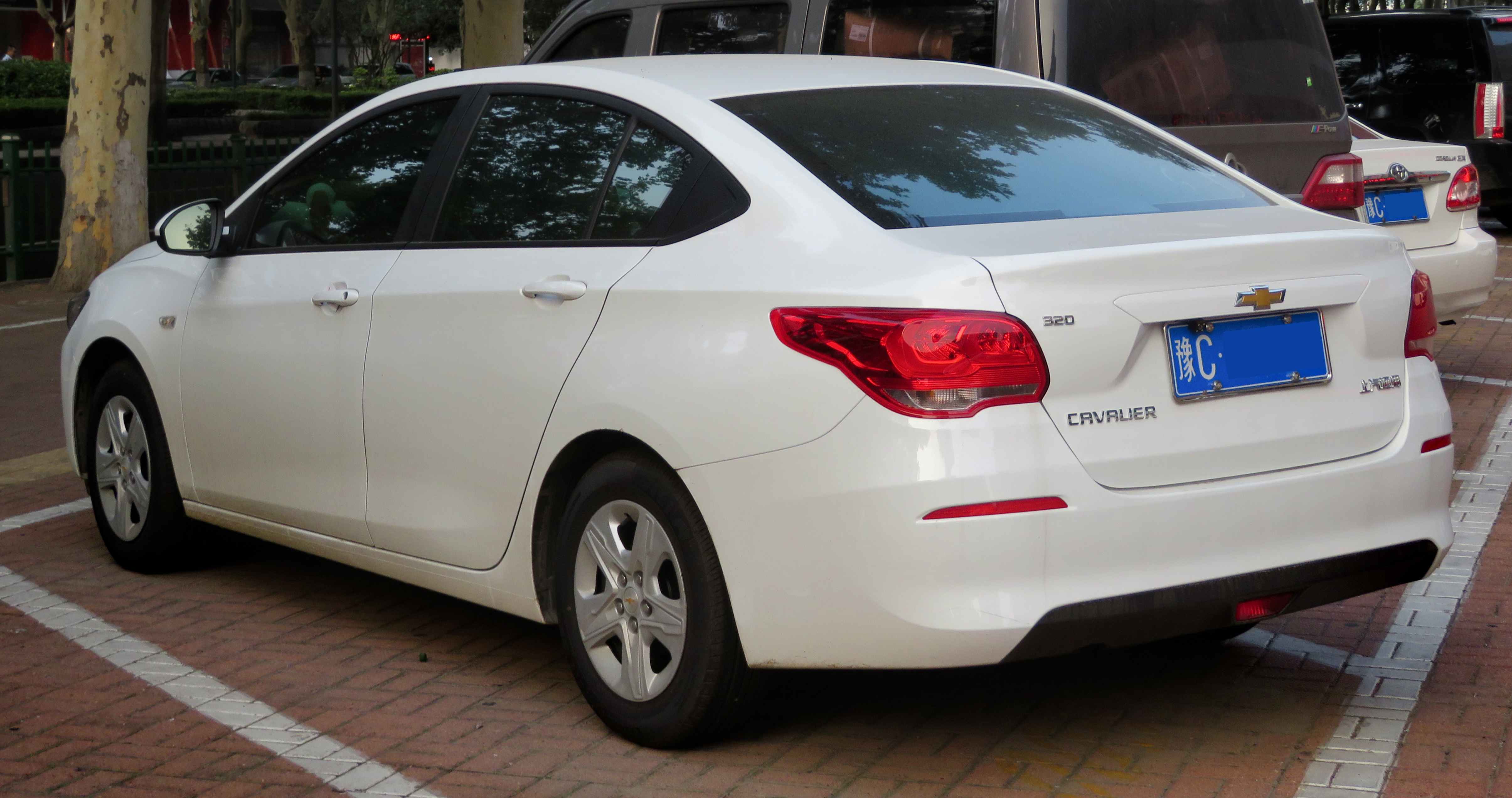 Photographed in Luoyang, Henan province, China